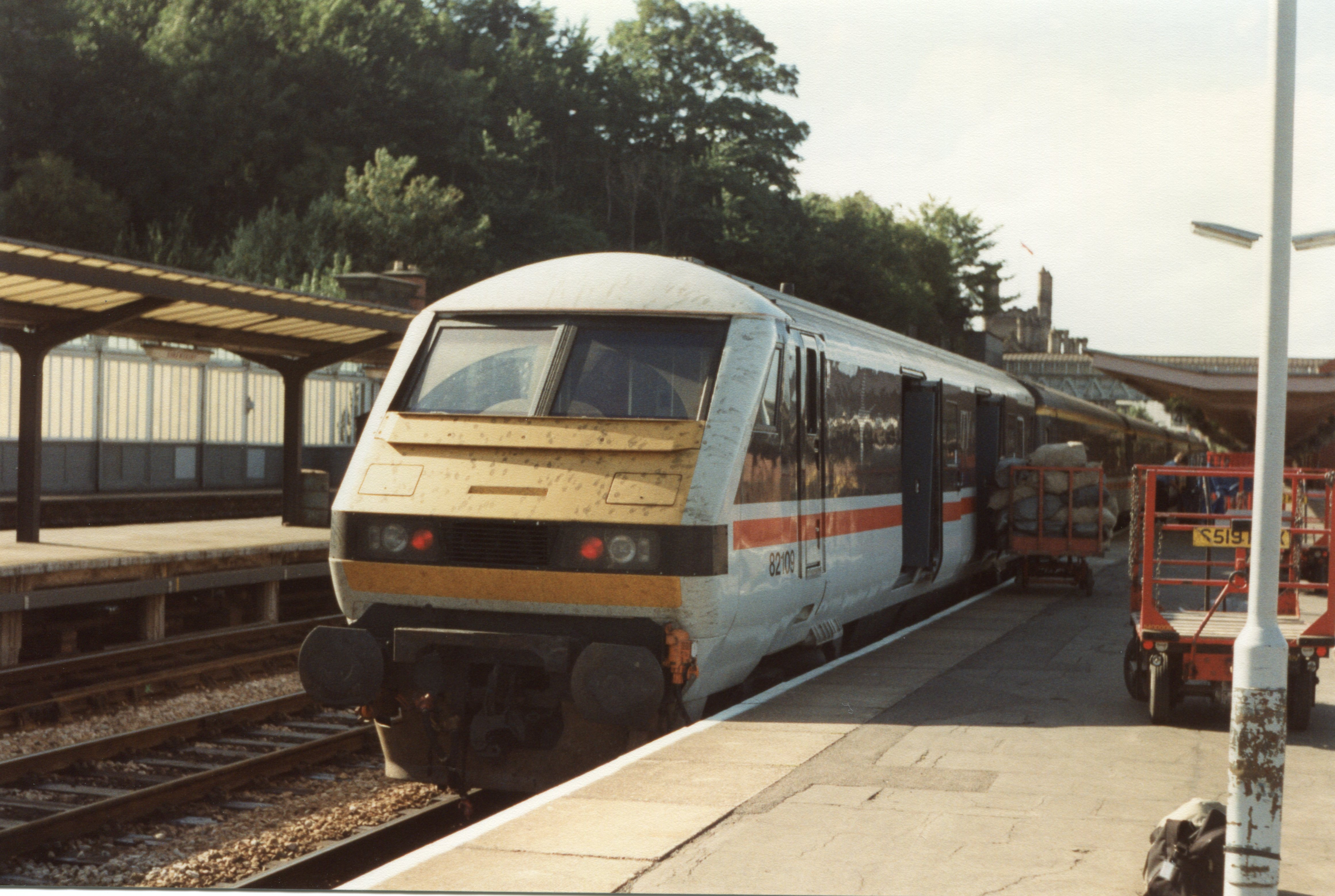 82109 - Shrewsbury